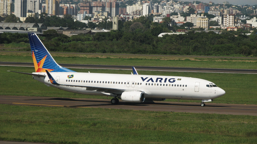 Varig Boeing 737-800 at Salgado Filho Airport